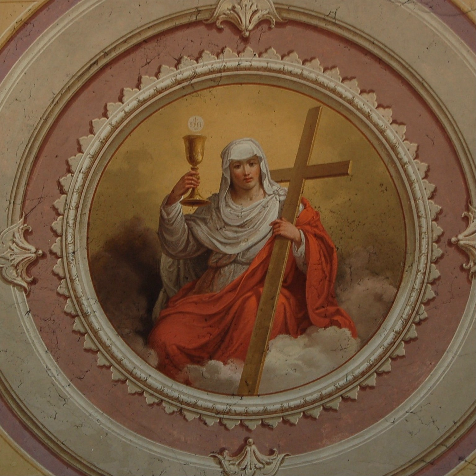 Affresco rappresentate la virtù teologale La Fede del pittore Tagliaferri - Chiesa di San Pietro Martire a Baruffini - Tirano - Sondrio